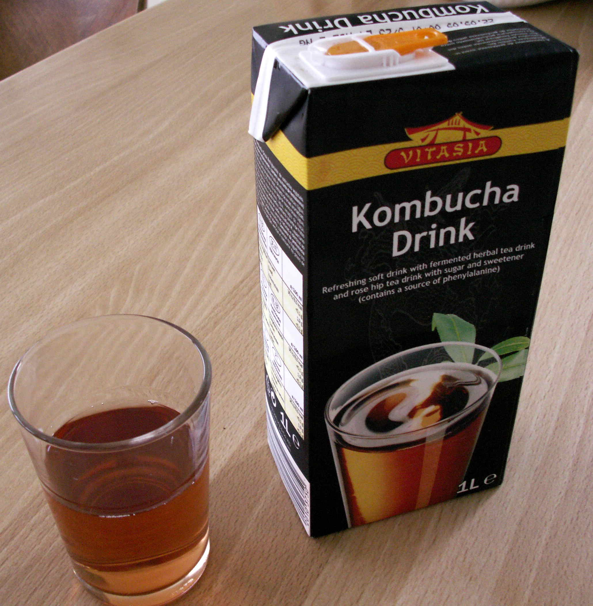 A bottle of kombucha, flavoured with fermented herbal tea extract (38%), rosehip tea (25%), water, fruit juice, and apple cider, lemon and milk acids and some sweetener. Contains but 8,5 kcal/100ml